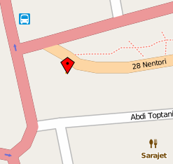 Sahati Map This map may be incomplete, and may contain errors. Don't rely solely on it for navigation.